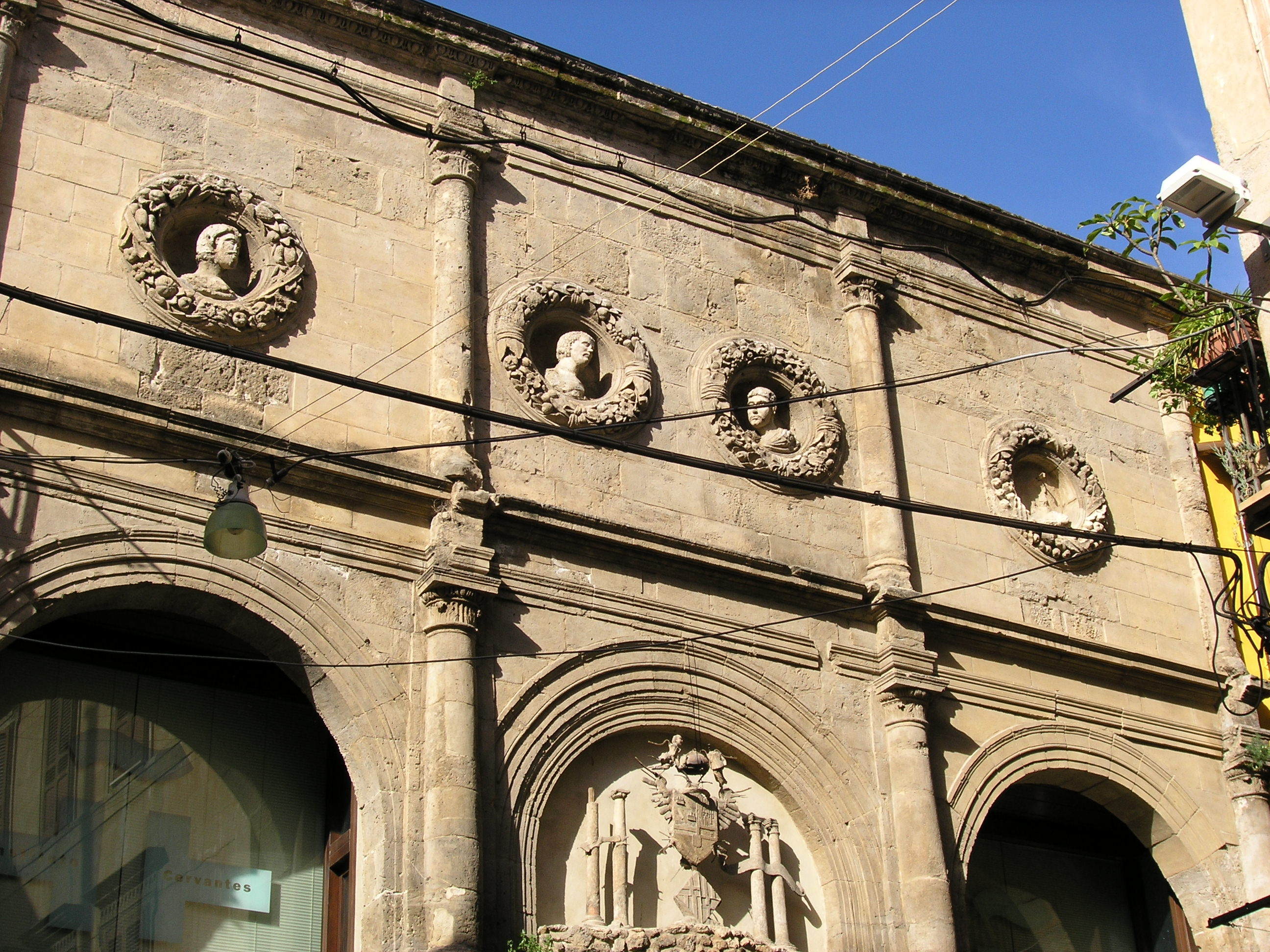 Chiesa di Sant'Eulalia dei Catalani The church was founded in the late XV - early XVI century for the big Catalan community of Palermo. The facade, made at the beginning of XVI century, is decorated with marble busts of kings of Aragon and Catalan coats of arms. It represents a very rare example of Plateresque style in Sicily.